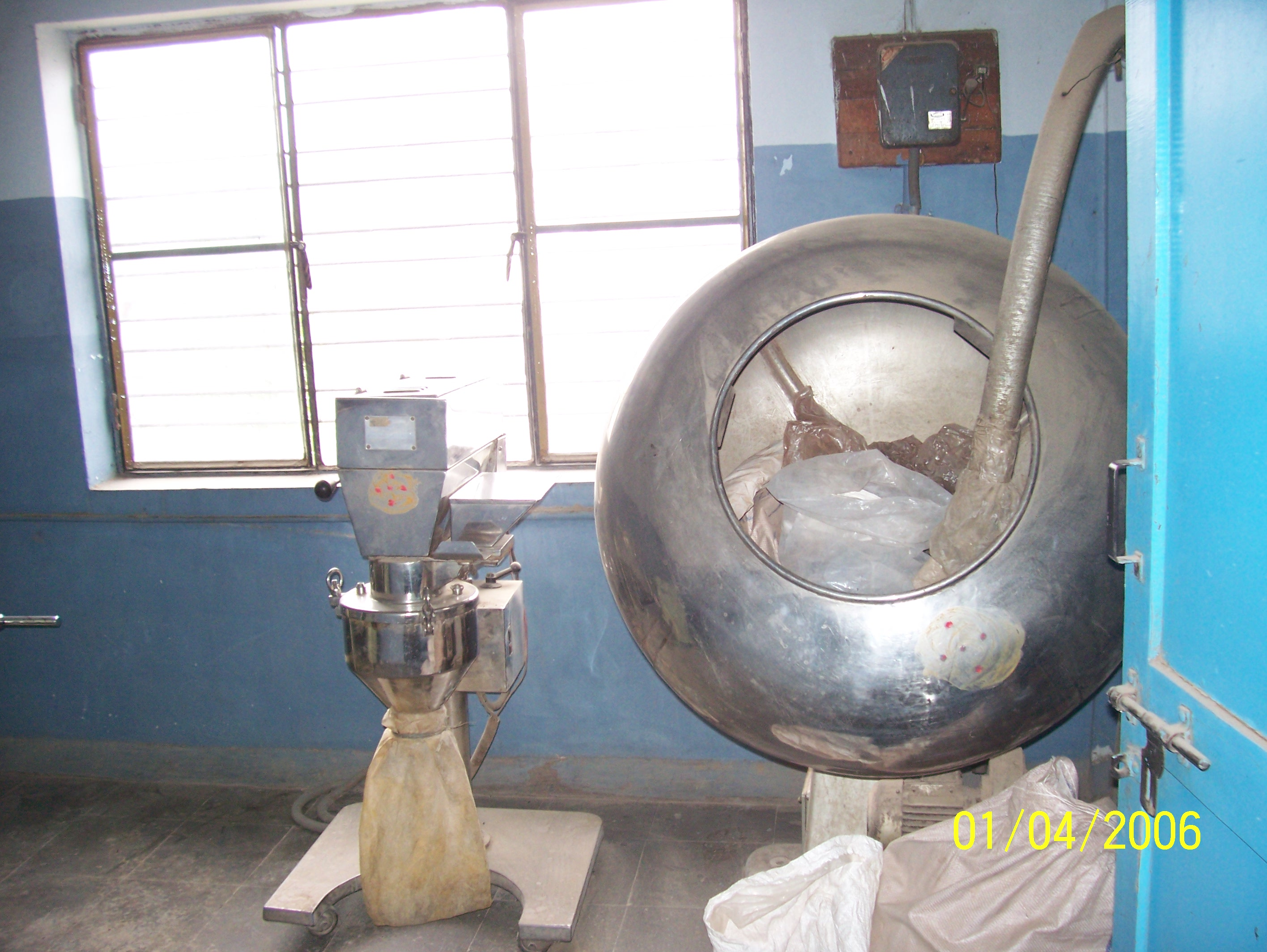 machine in the pharmci, imjapur